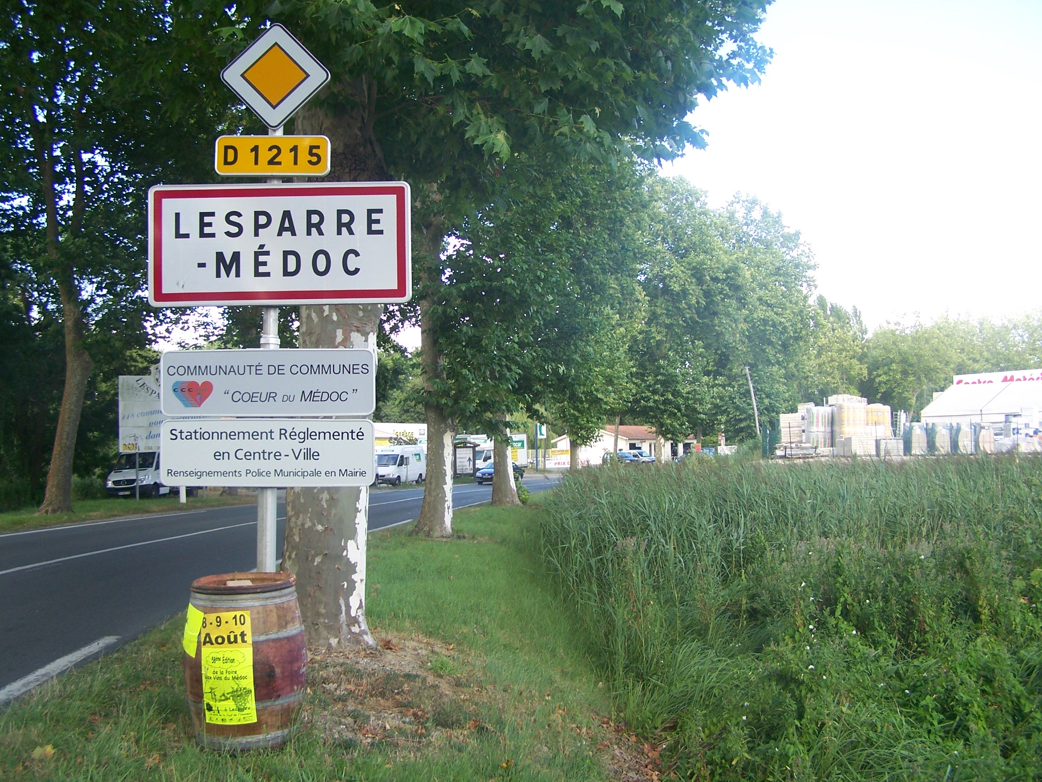 Sign welcoming visitors to Lesparre-Médoc, commune of the Médoc region, in Gironde, France.